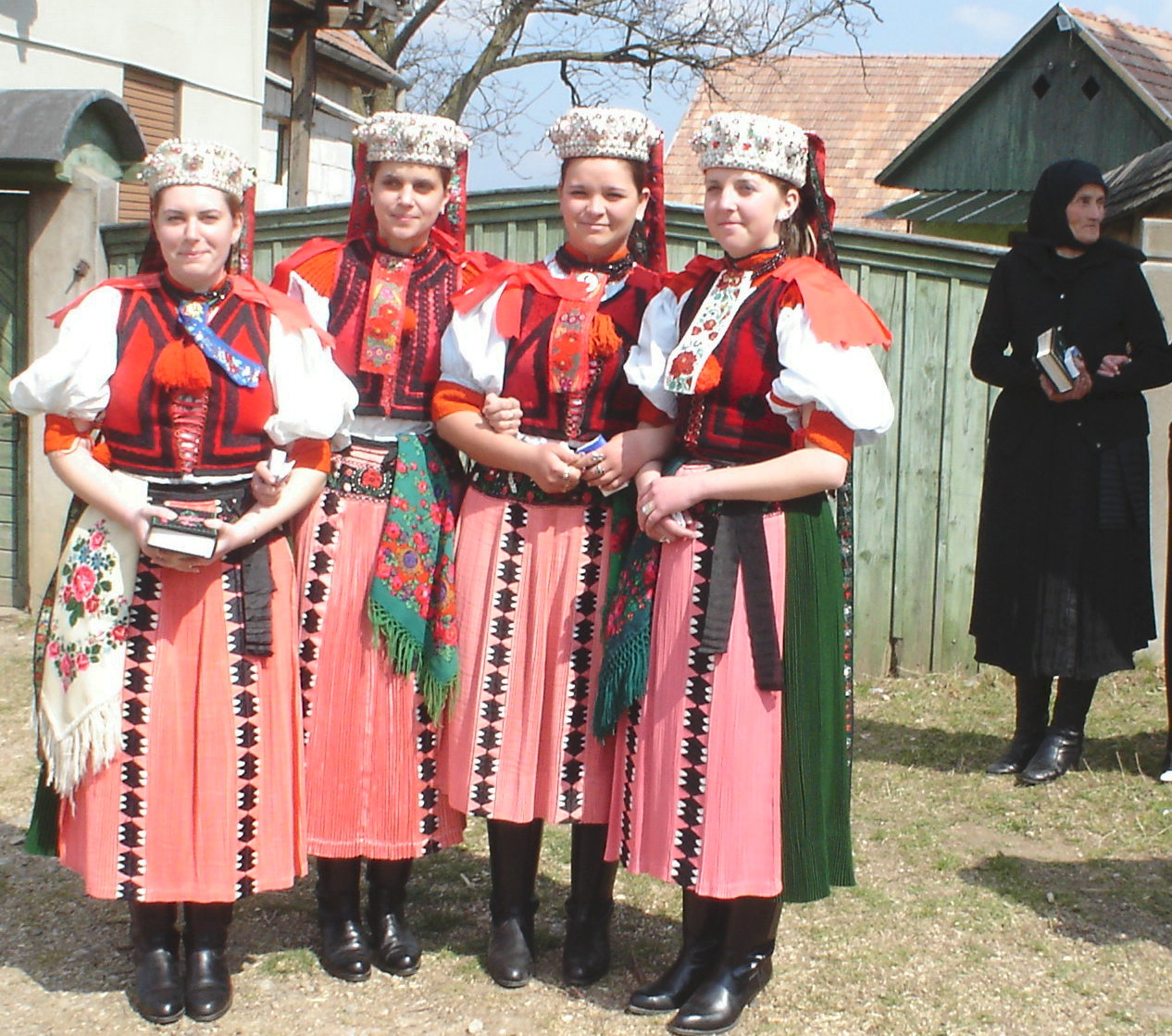 Young Hungarian girls and a older Hungarian woman in traditional clotching in Sâncraiu (hu. Kalotaszentkirály) Transylvania